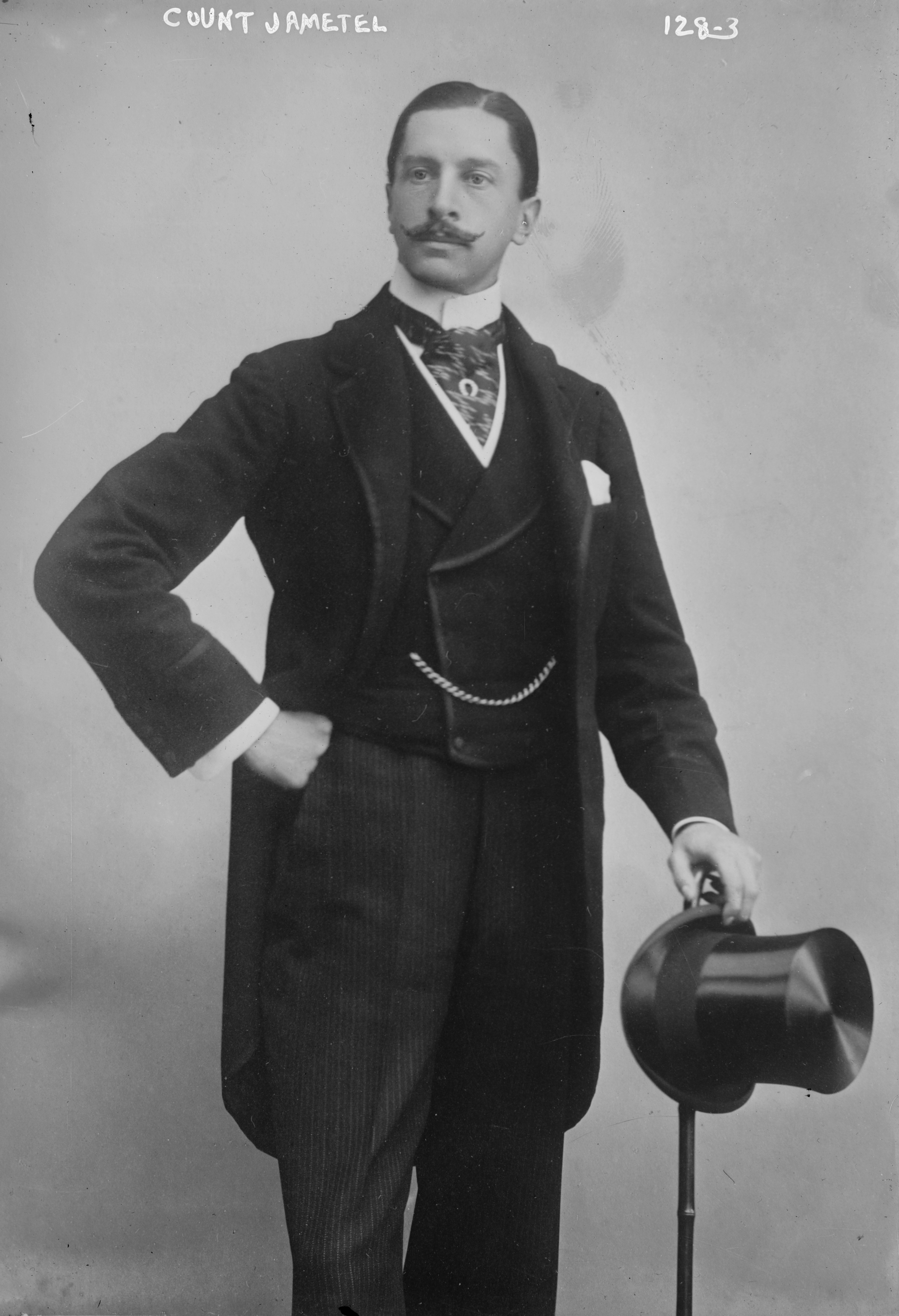 Count Georges Jametel